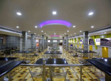 Sreedhareeyam Ayurvedic Eye Hospital And Research Centre